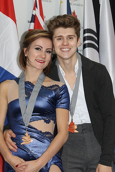 Carolane Soucisse and Shane Firus at the 2018 Autumn Classic International